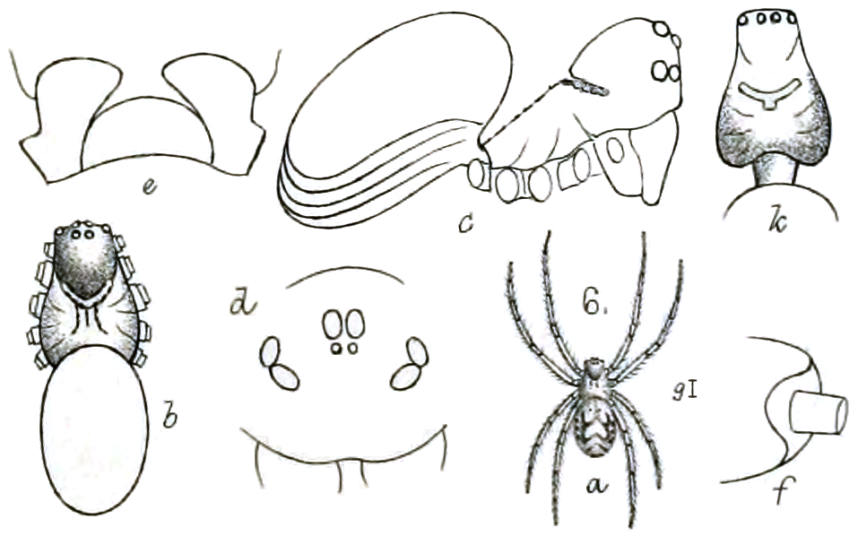 6 Chasmocephalon neglectum O.P.-Cambridge = Chasmocephalon neglectum O. P.-Cambridge, 1889, ♂ (a = adult from above, enlarged, b = body from dorsal, c = body of adult from right lateral, d = eye pattern from dorsal, e = mouthparts from ventral, f = insertion of opisthosomal pedicle into prosoma, g = natural length of adult, prosoma from dorsal, showing opisthosomal pedicle)